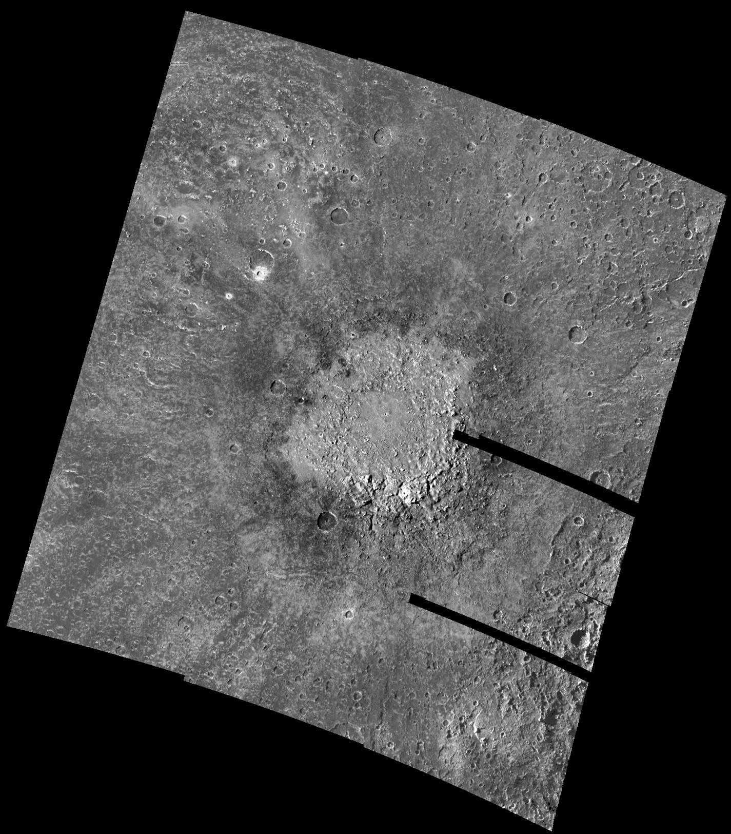 Callisto Lofn crater by Galileo, from NASA Planetary Photojournal